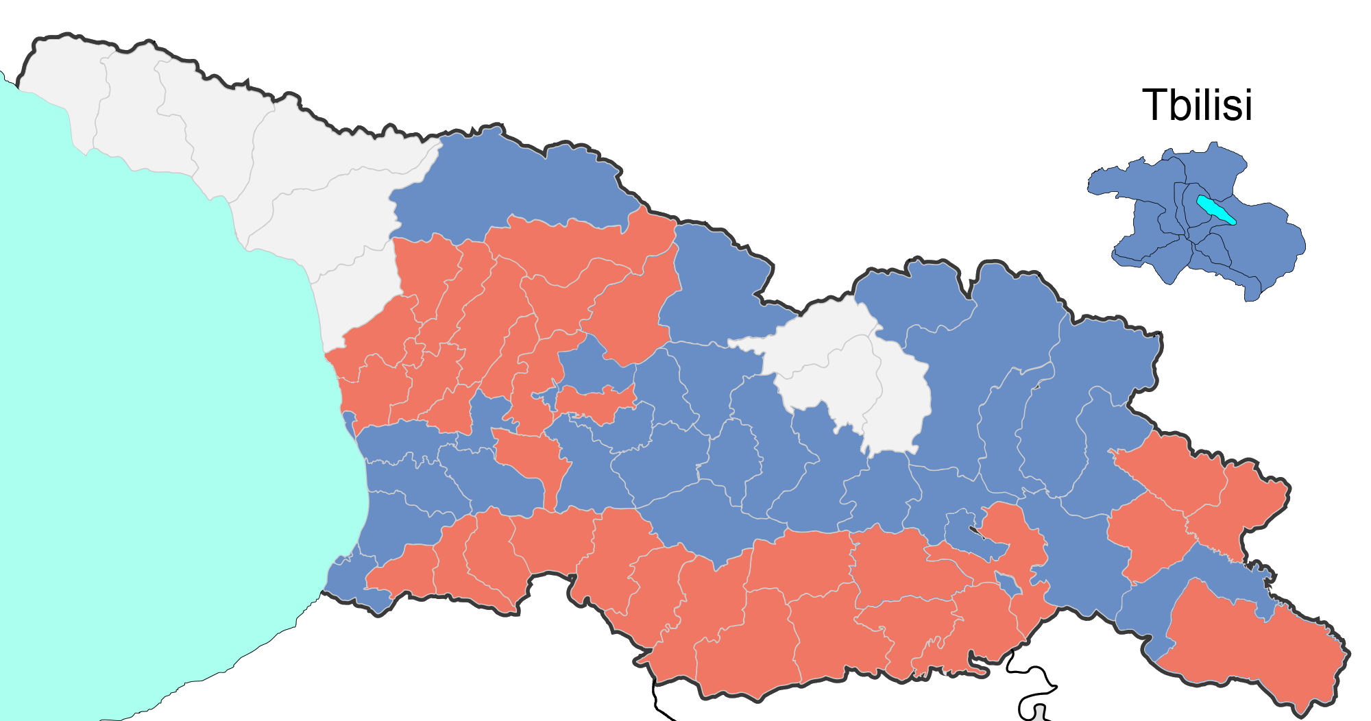 Map for the 2012 Georgia parliamentary elections, Constituency, using apportionment data released by Central Election Comission of Georgia. [1]